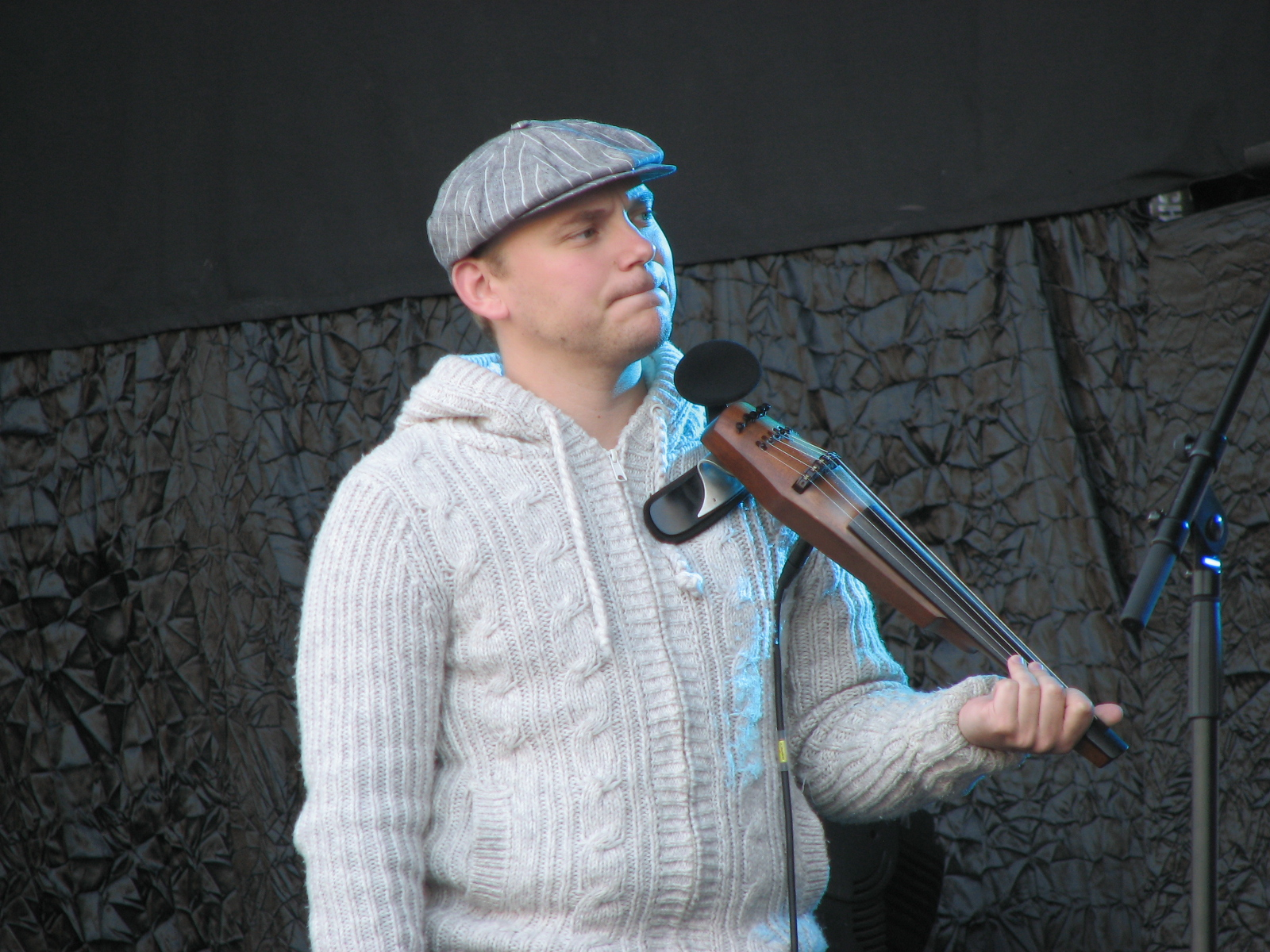 Tiit Kikas performing on the stage of The Song of Freedom